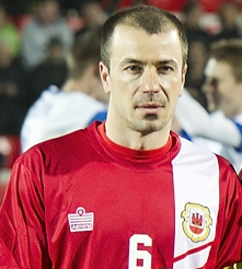 Roy Chipolina vs. Estonia